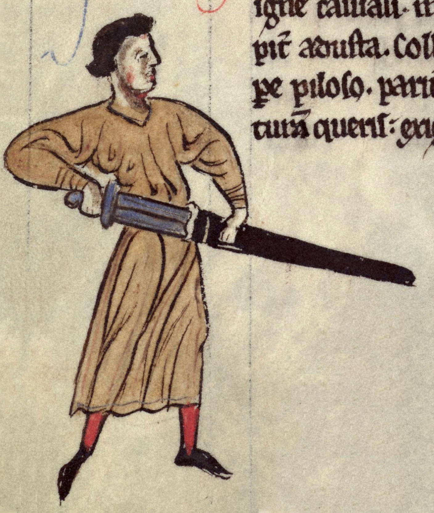 Portrait of Hugh de Lacy